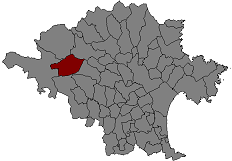 Location of Sant Llorenç de la Muga in Alt Empordà